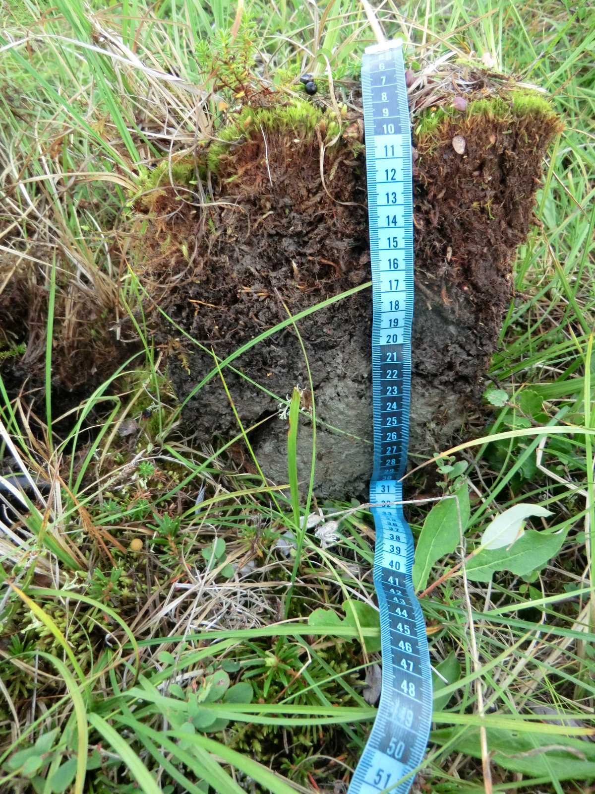 An arctic tundra soil profile shows the active layer on top where plants can get a foothold to grow. The gray mineral soil layer on the bottom isn't penetrated by the roots. Exposed column of tundra soil